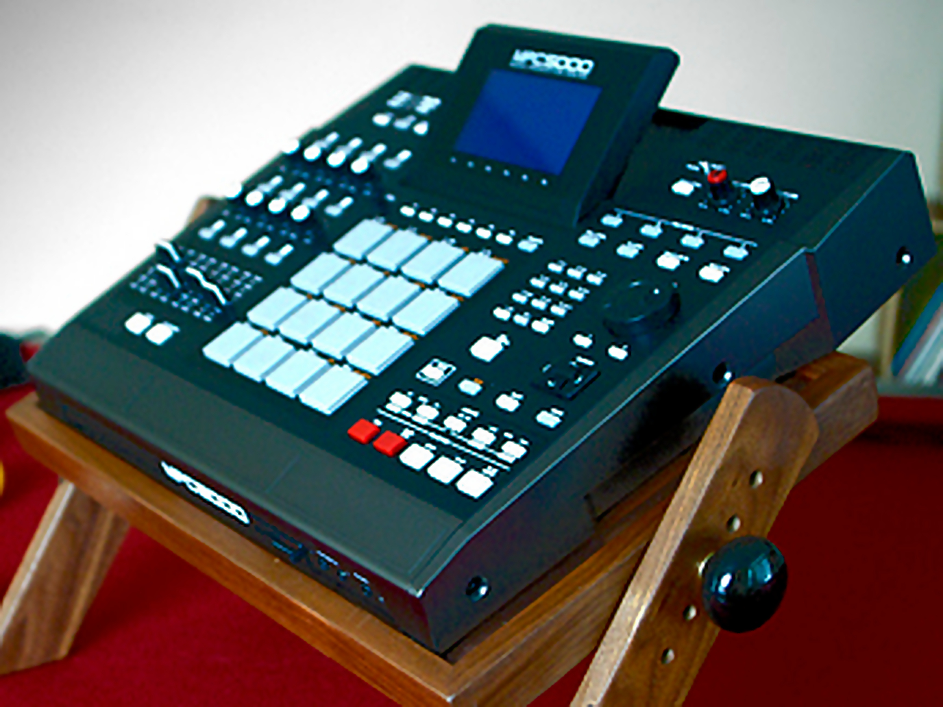 AKAI MPC5000